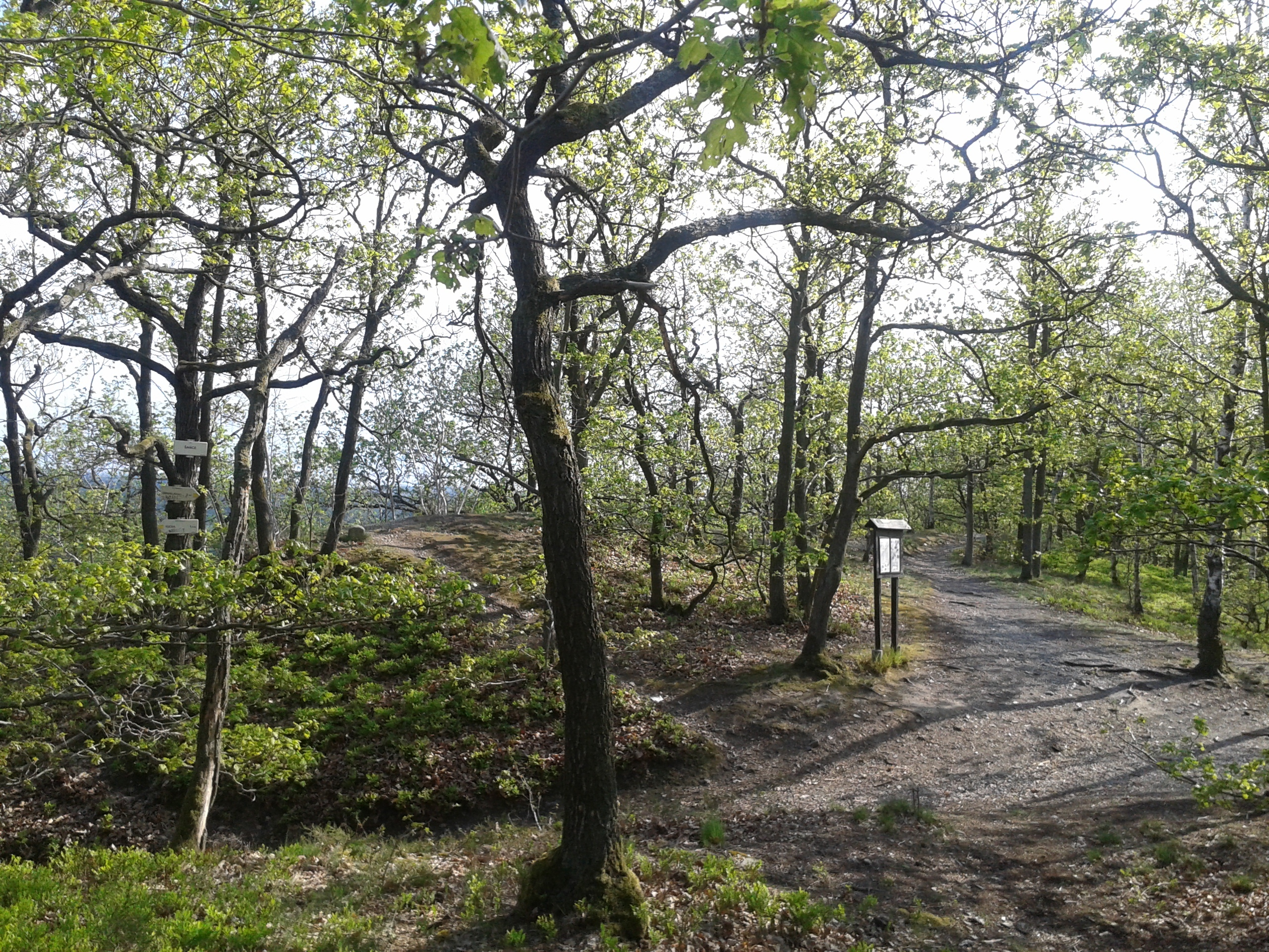 Nature Reserve Šance near Točná with the educative trail Celtic Trail commemorating the local part of the cultural monument - Oppid Závist